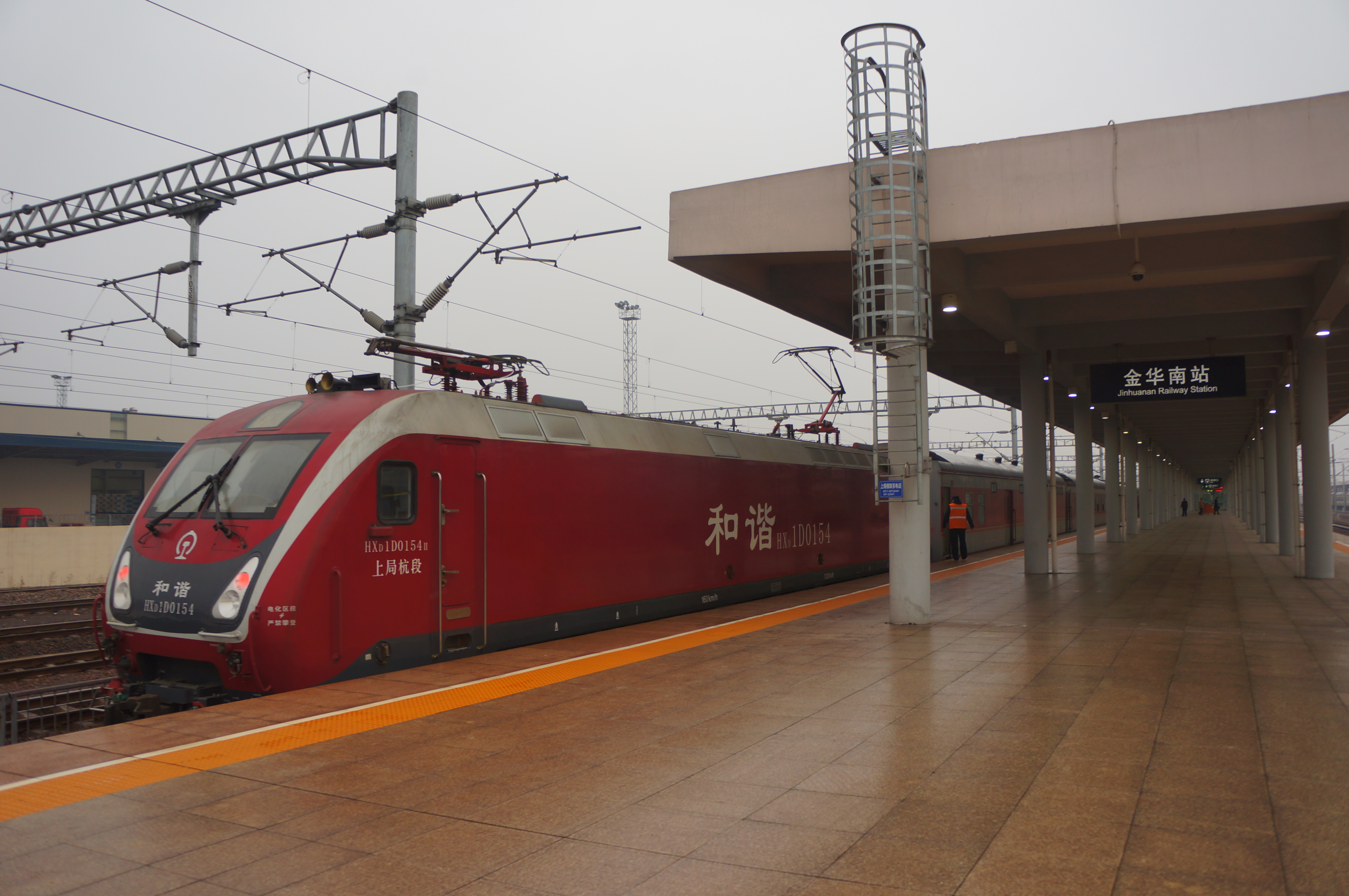 201703 HXD1D-0154 hauls K102 at Jinhuanan Station, turnaround at Jinhua Station is not needed any more since the upgrading construction at the conventional yard.